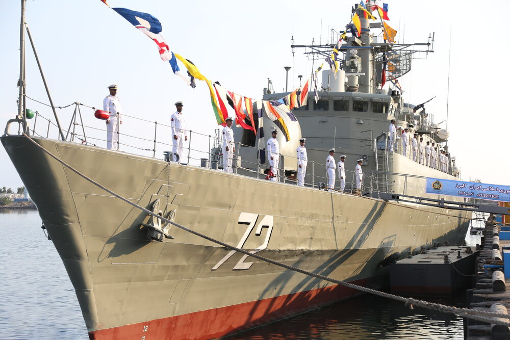 BANDAR ABBAS, Dec. 04 (MNA) – The formal ceremony of delivering new marine and submarine vessels to the Iranian Navy was held in the port city of Bandar Abbas, southern Iran, on Tuesday in the presence of Navy Commander Rear Admiral Hossein Khanzadi.